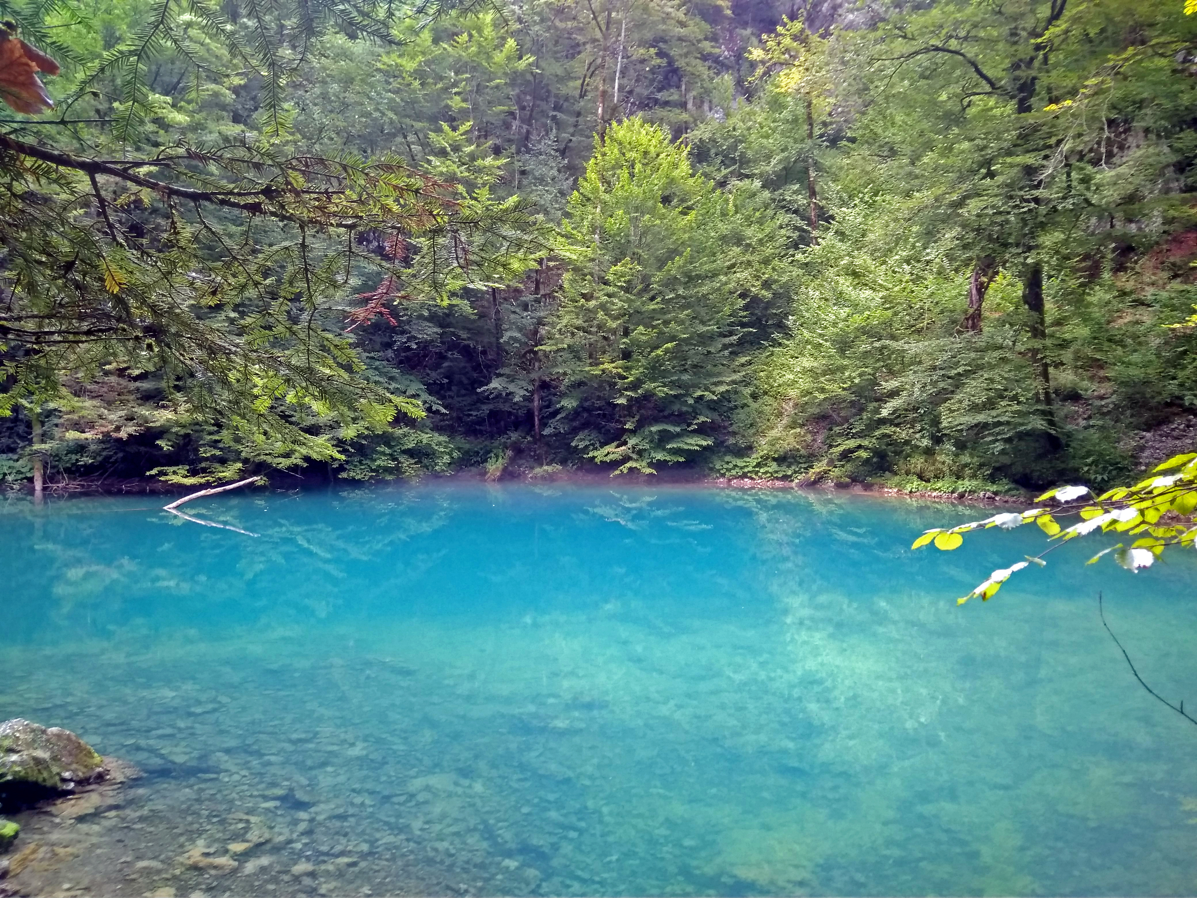 spring of river Kupa in Risnjak National Park, Gorski Kotar, Croatia